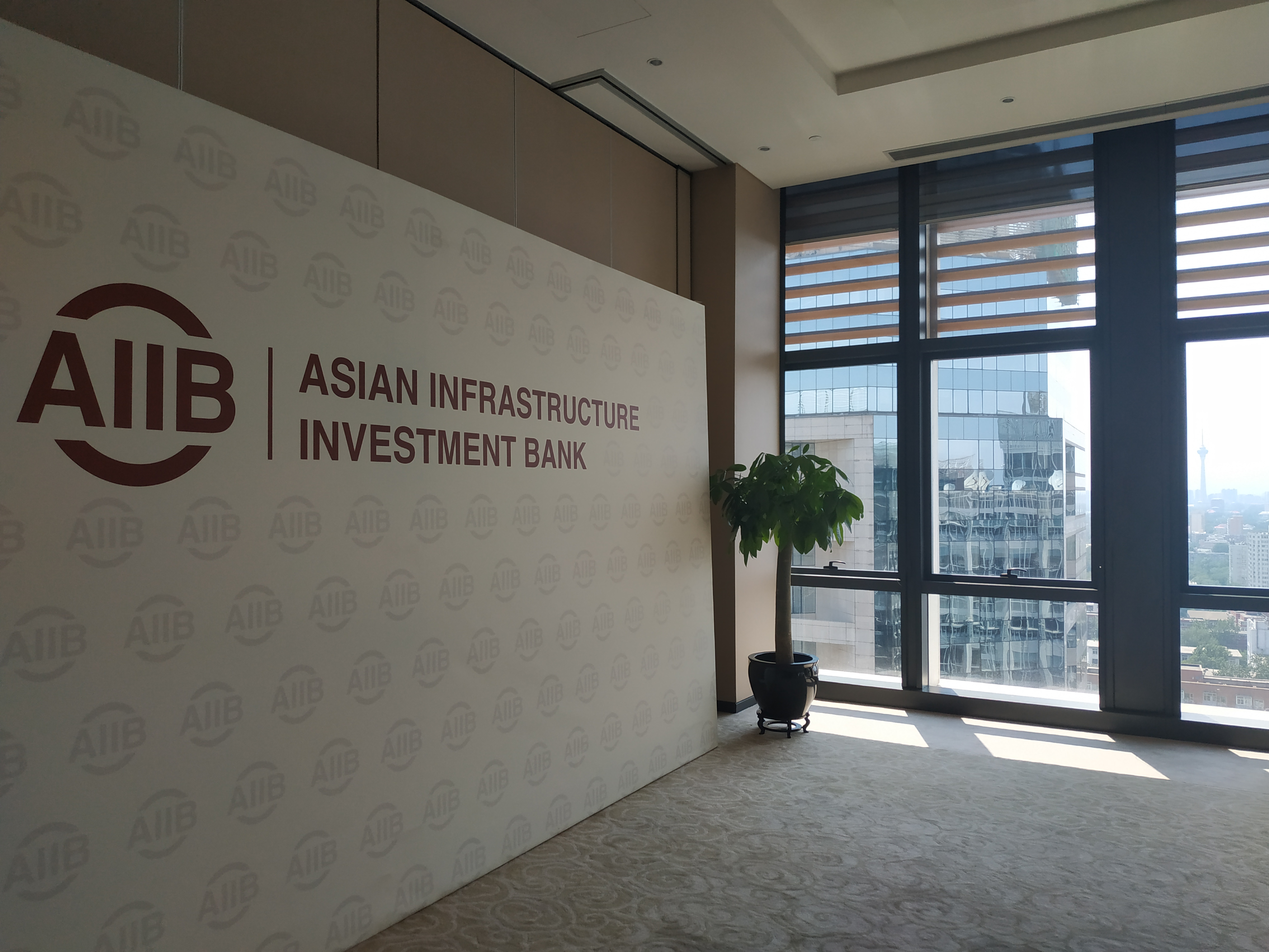 The internal environment of Asian Infrastructure Investment Bank.